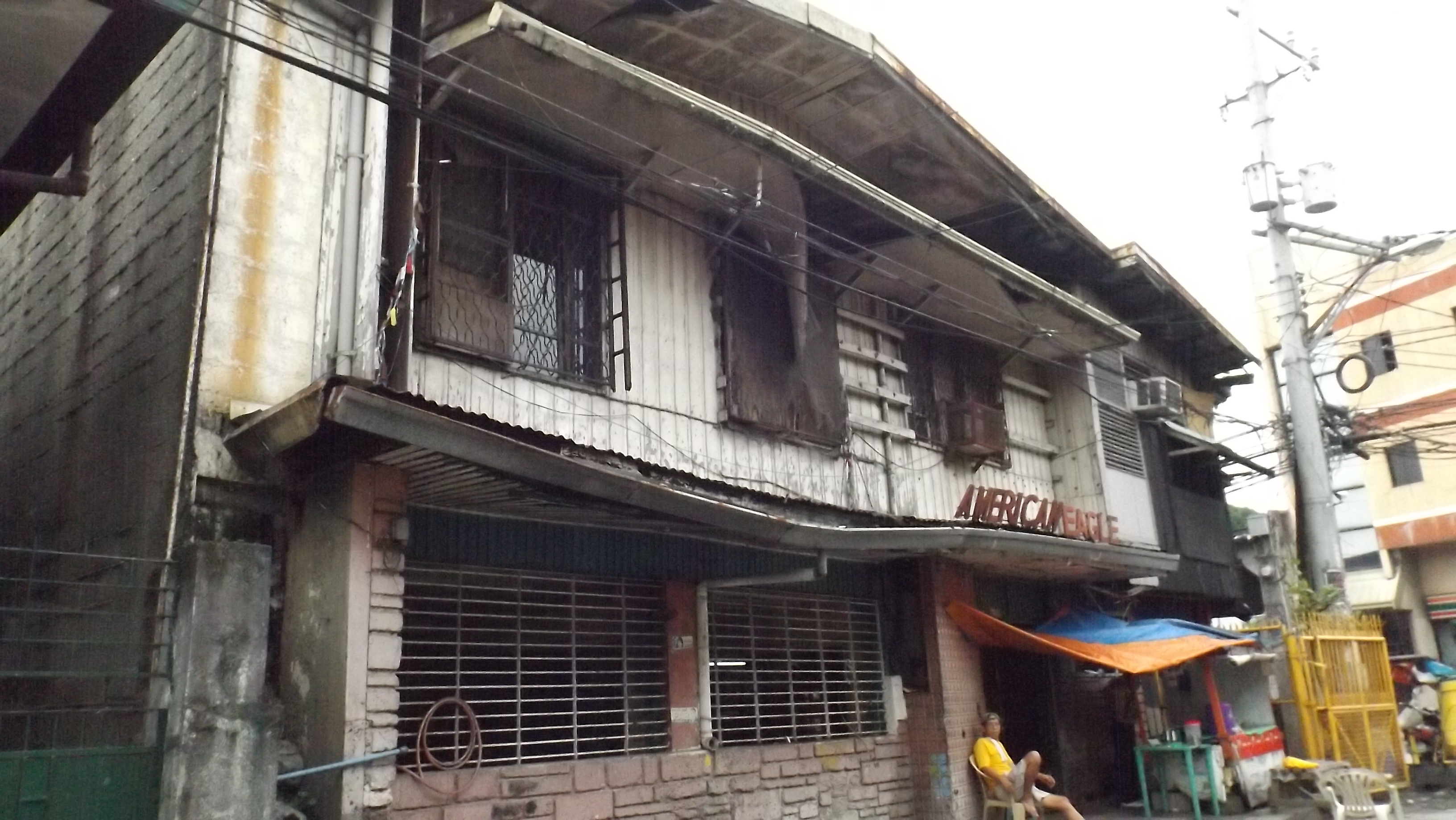 Facade